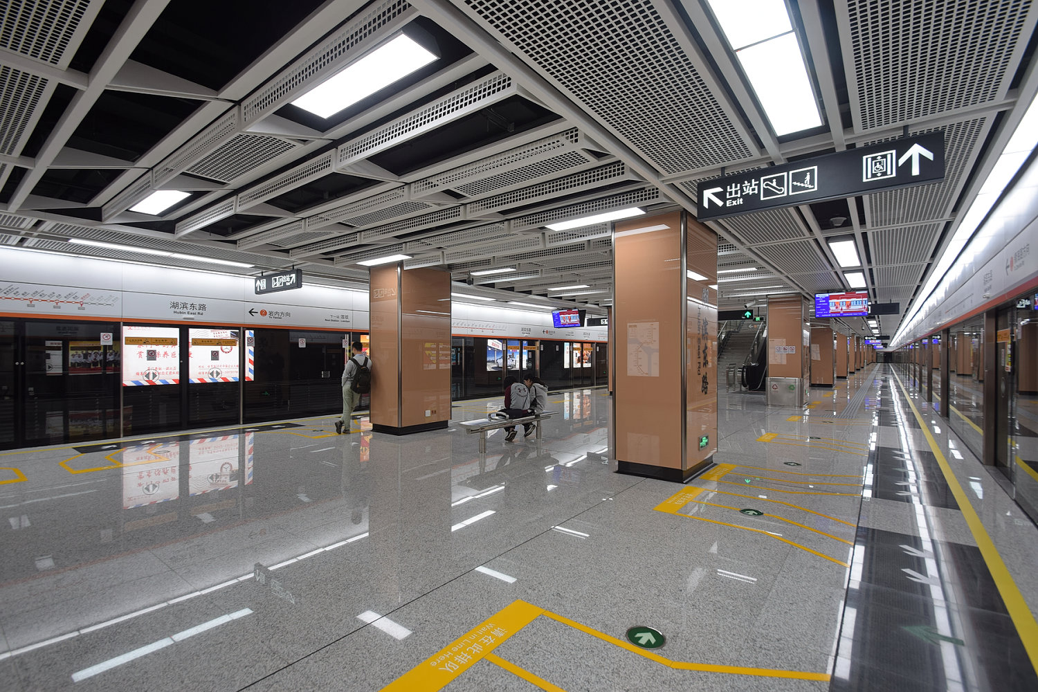 Line 1 Platform of Hubin East Road Station, Xiamen Metro